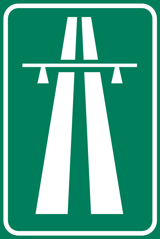 turkish motorway sign which marks the beginning of motorway restrictions, basic